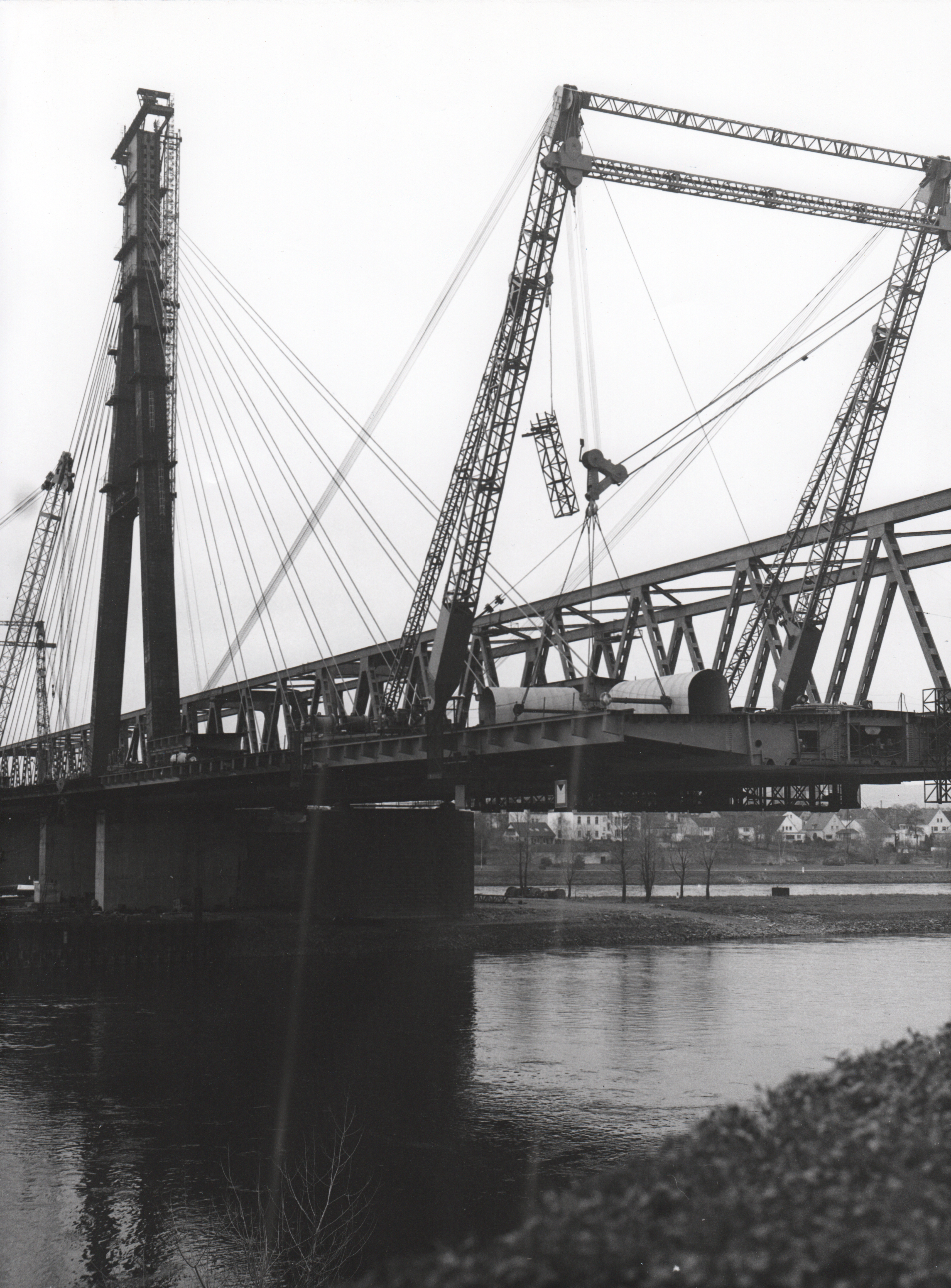 Construction work at the Raiffeisenbrücke, view from the Neuwied riverside to Weißenthurm.